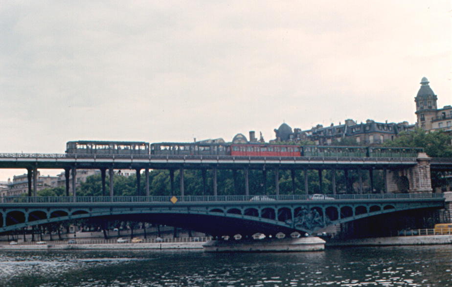 The Bir-Hakeim Bridge was built iln 1905 as the Passy Bridge. The name was changed in 1948, for a battle which Free French forces fought in North Africa in 1942. This was the classic Paris Métro train set of five cars. The red car in the middle was first class. The train is on line 6, which runs from Étoile (now Charles de Gaulle-Étoile) to Nationj. This photo was taken in 1973. In 1974, line 6 was converted to rubber-tire trains. First class was eliminated on the Métro in 1991.